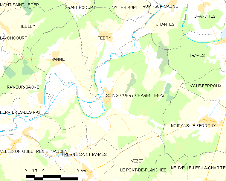 Map of French municipality